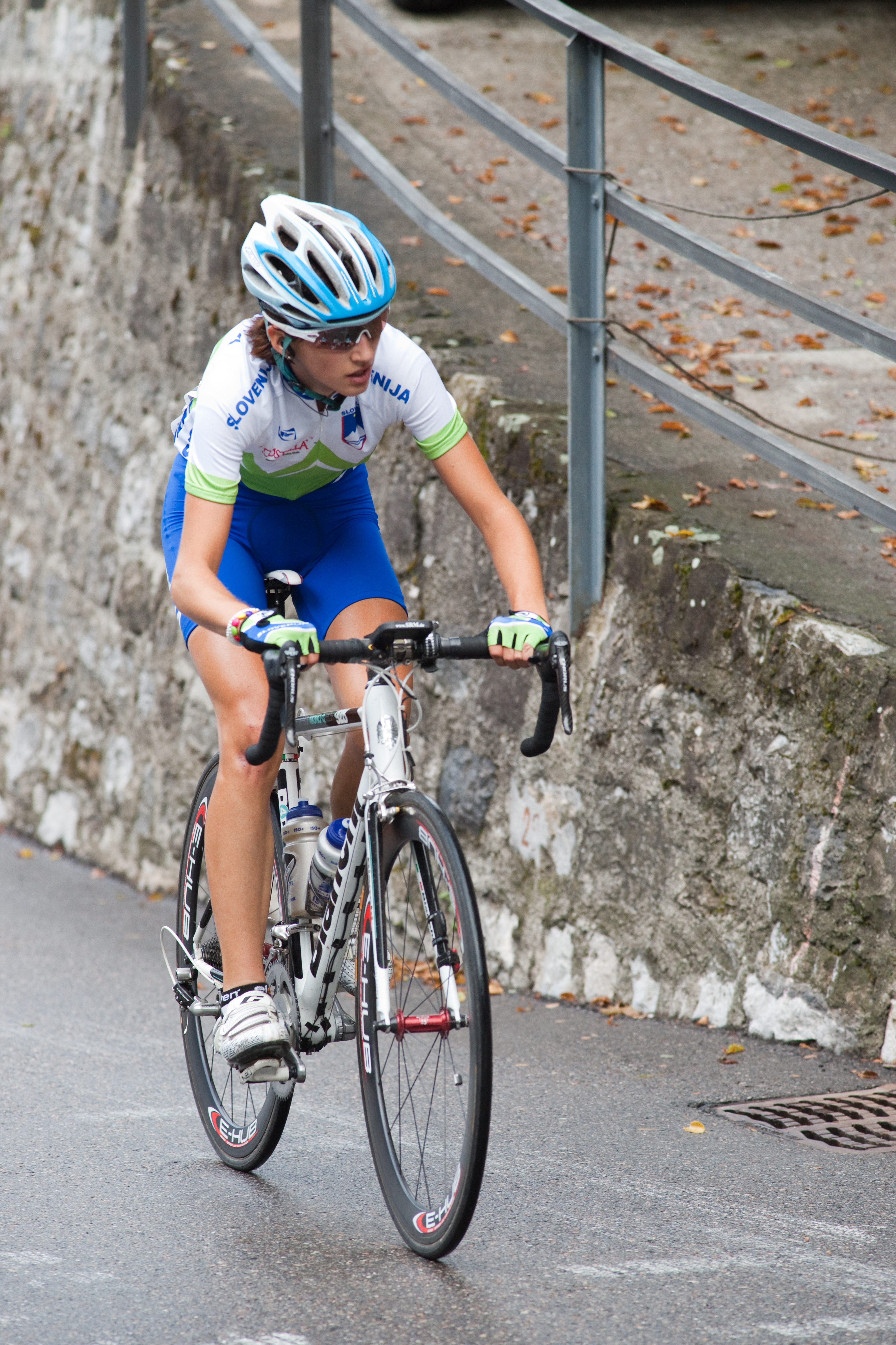 Polona Batagelj during the 2009 UCI Road World Championships in Mendrisio, Switzerland.